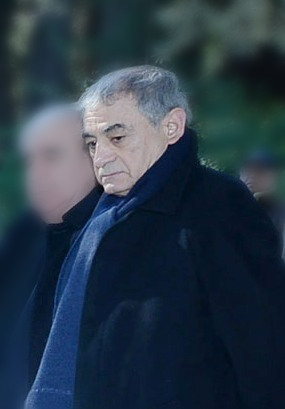 Fakhraddin Manafov on the grave of Vagif Samadoglu